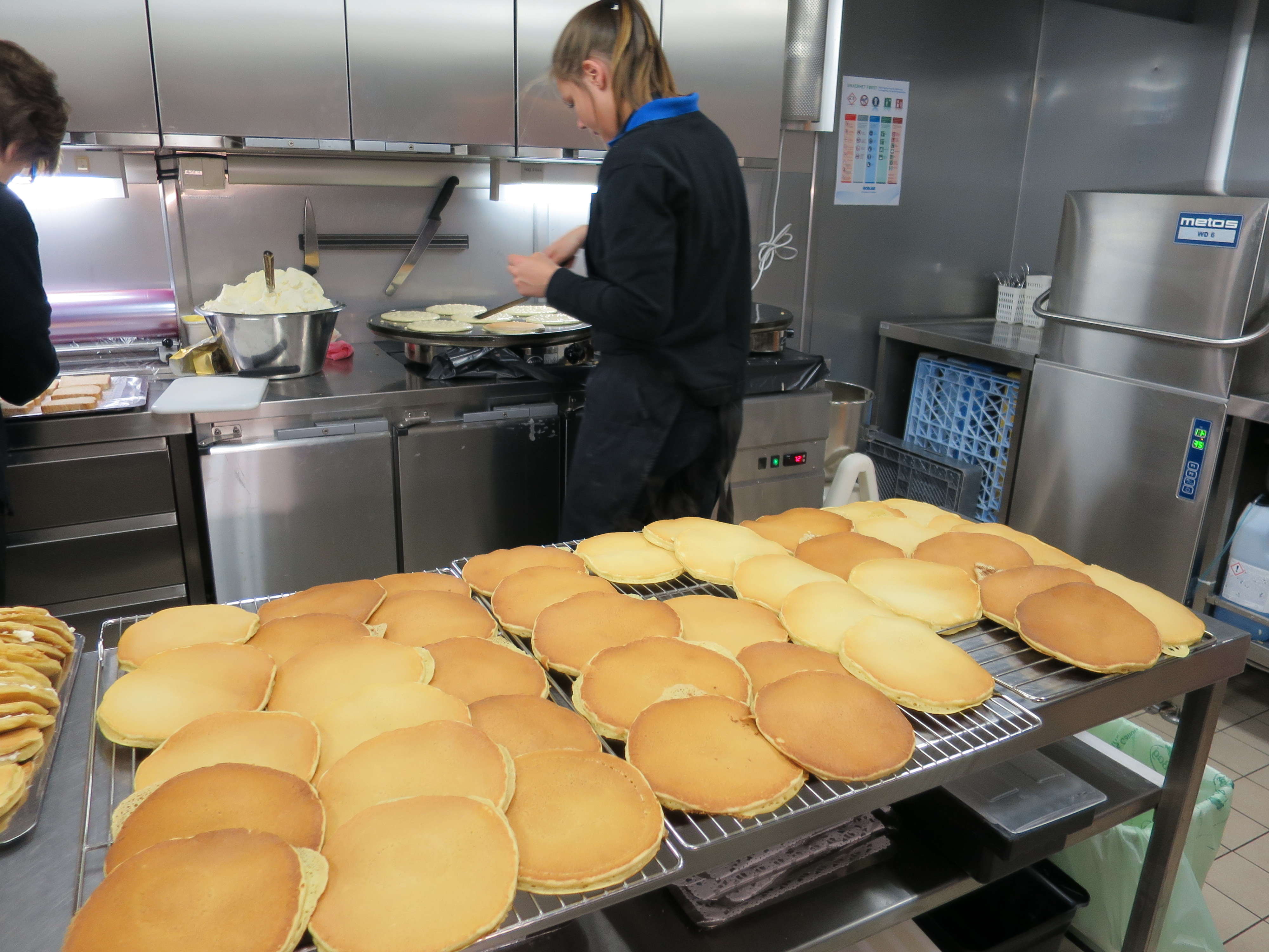 Production of svele on board the ferry Bastø IV, with a mix of svele under production and finished products (foreground)